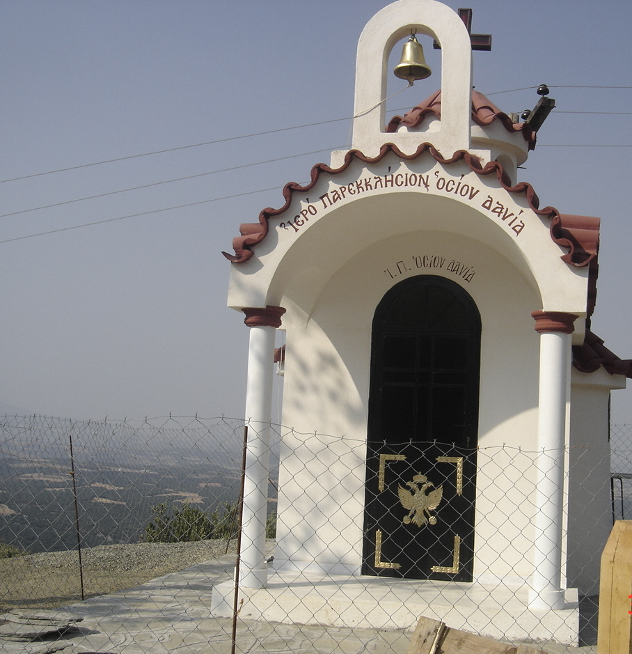 A small church at Petra, Pieria.